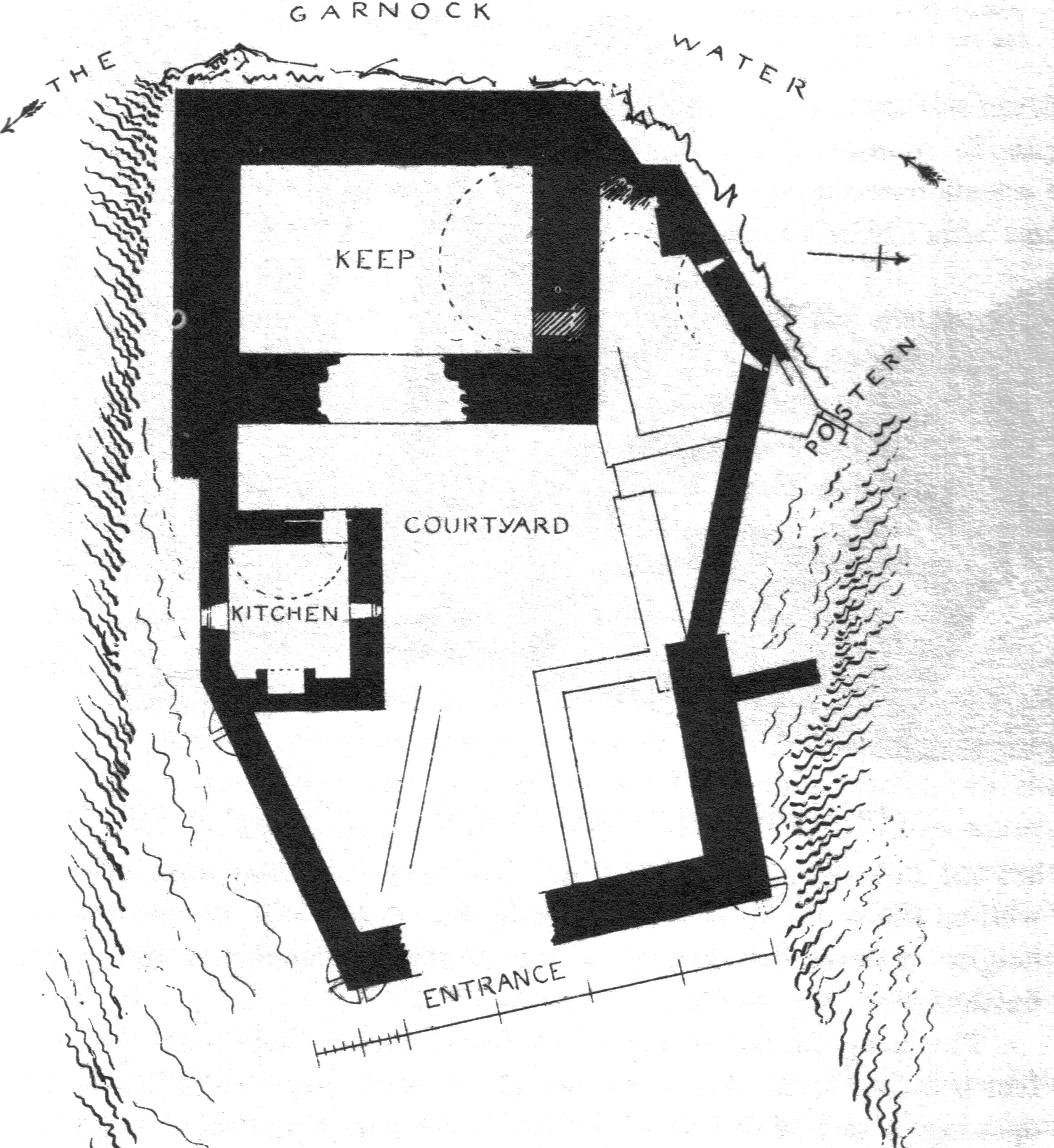 A plan of Glengarnock Castle, Kilbirnie, North Ayrshire, Scotland